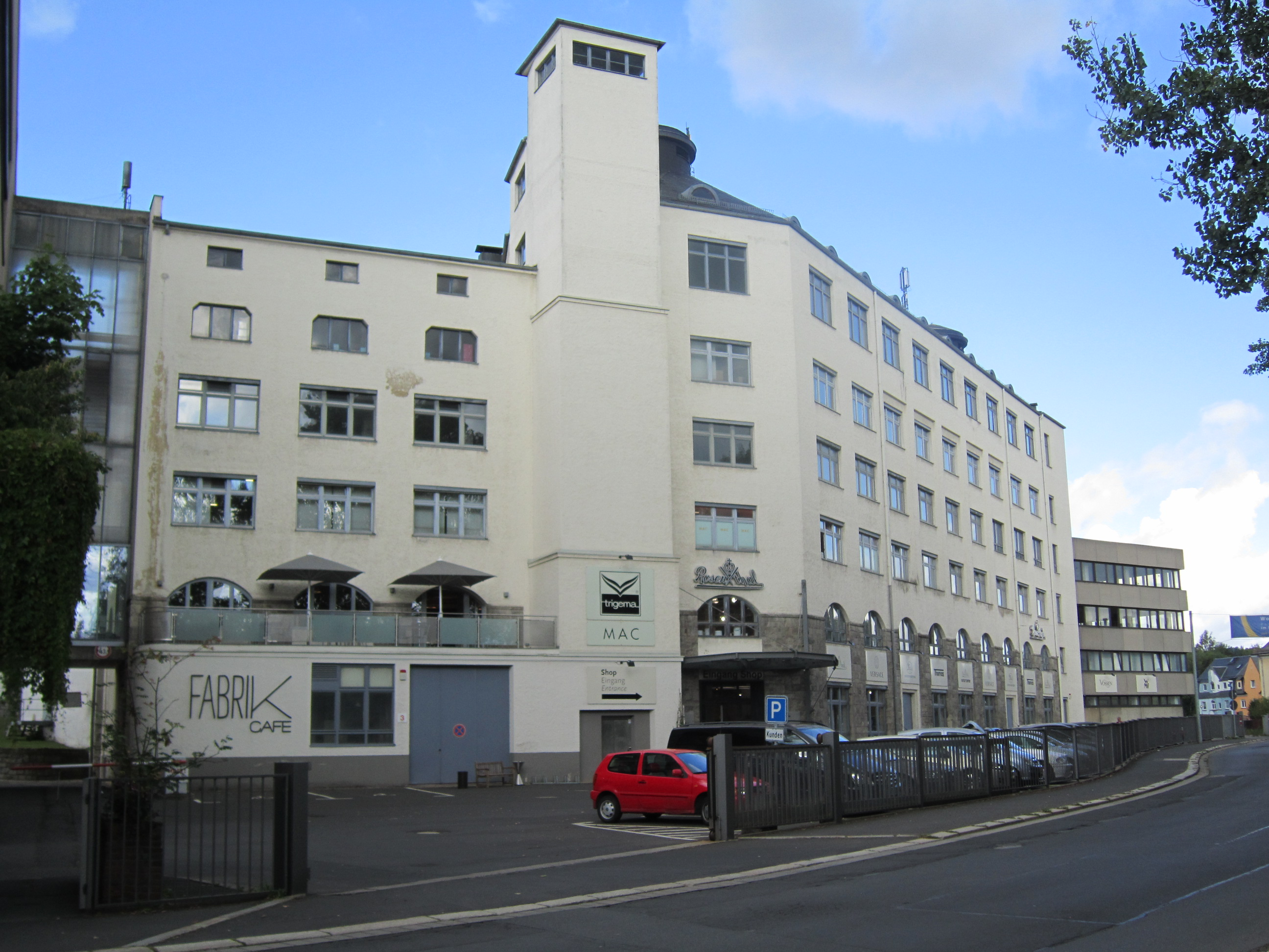 Rosenthal porcelain factory in Selb